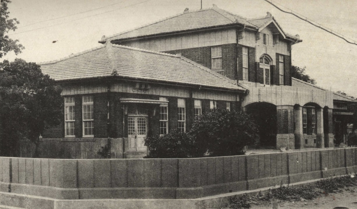 鳳山郡役所